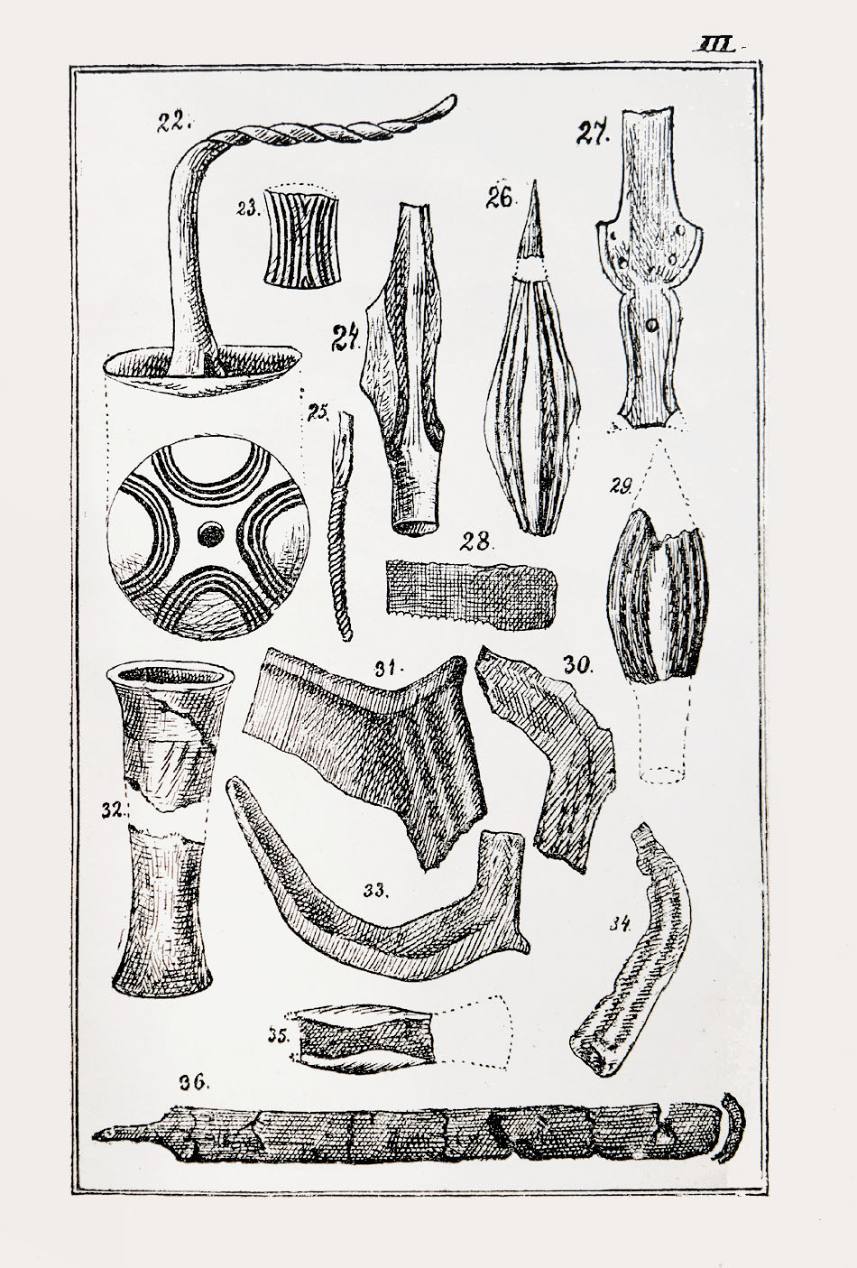 A page from the 19th century hungarian monograph of Subotica (archeological finds in the area)Srpski (latinica): Arheološki nalazi u Subotici